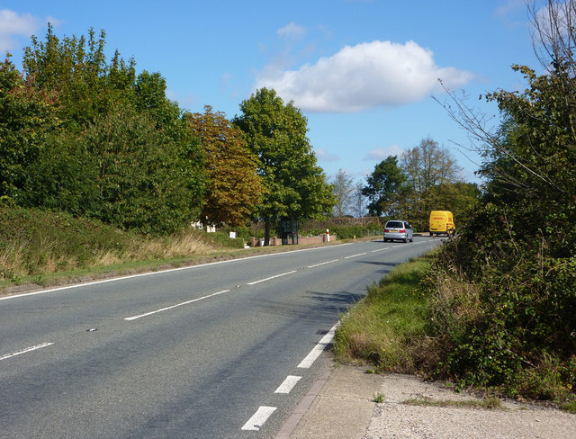 A1071 at Bower House Tye With traffic heading towards Hadleigh.